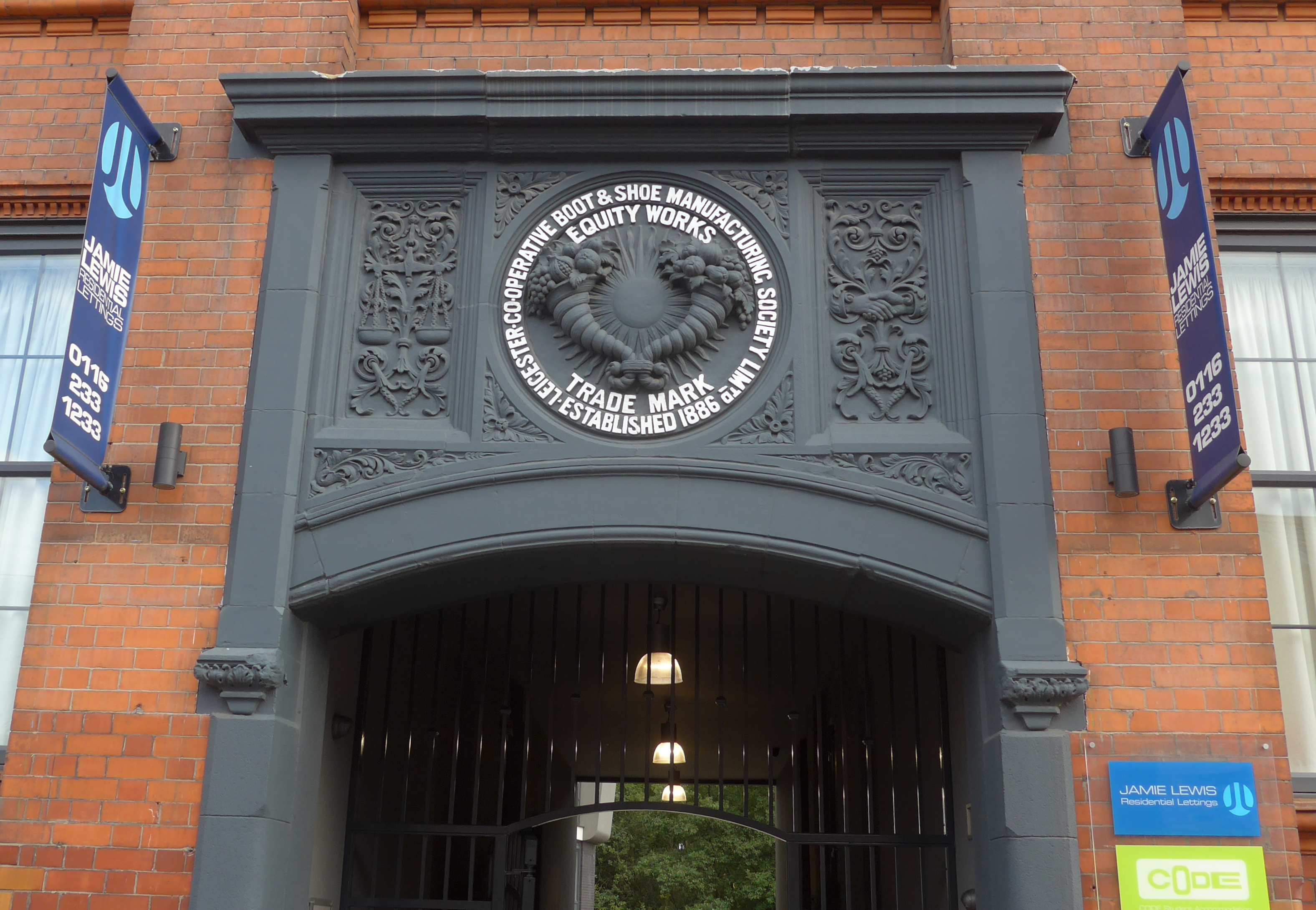 The Leicester Cooperative Boot & Shoe Manufacturing Society Ltd factory on Western Road was once a massive complex - see 1935 aerial photo of Great Central loco shed a few posts back. This very impressive entrance and carved stonework still announces the entrance to the main office block. Sadly once inside it becomes just another student apartment complex built on a former industrial site. Industry in 21st century Leicester is all about bums on seats at De Montfort University. Alice Hawkins, a shoe machinist at Equity Works, helped lead the Suffragette campaign in Leicester and gave speeches in London. There is a blue plaque on the wall and this week it has been announced that, following a large donation, a statue of her will be erected in the city.